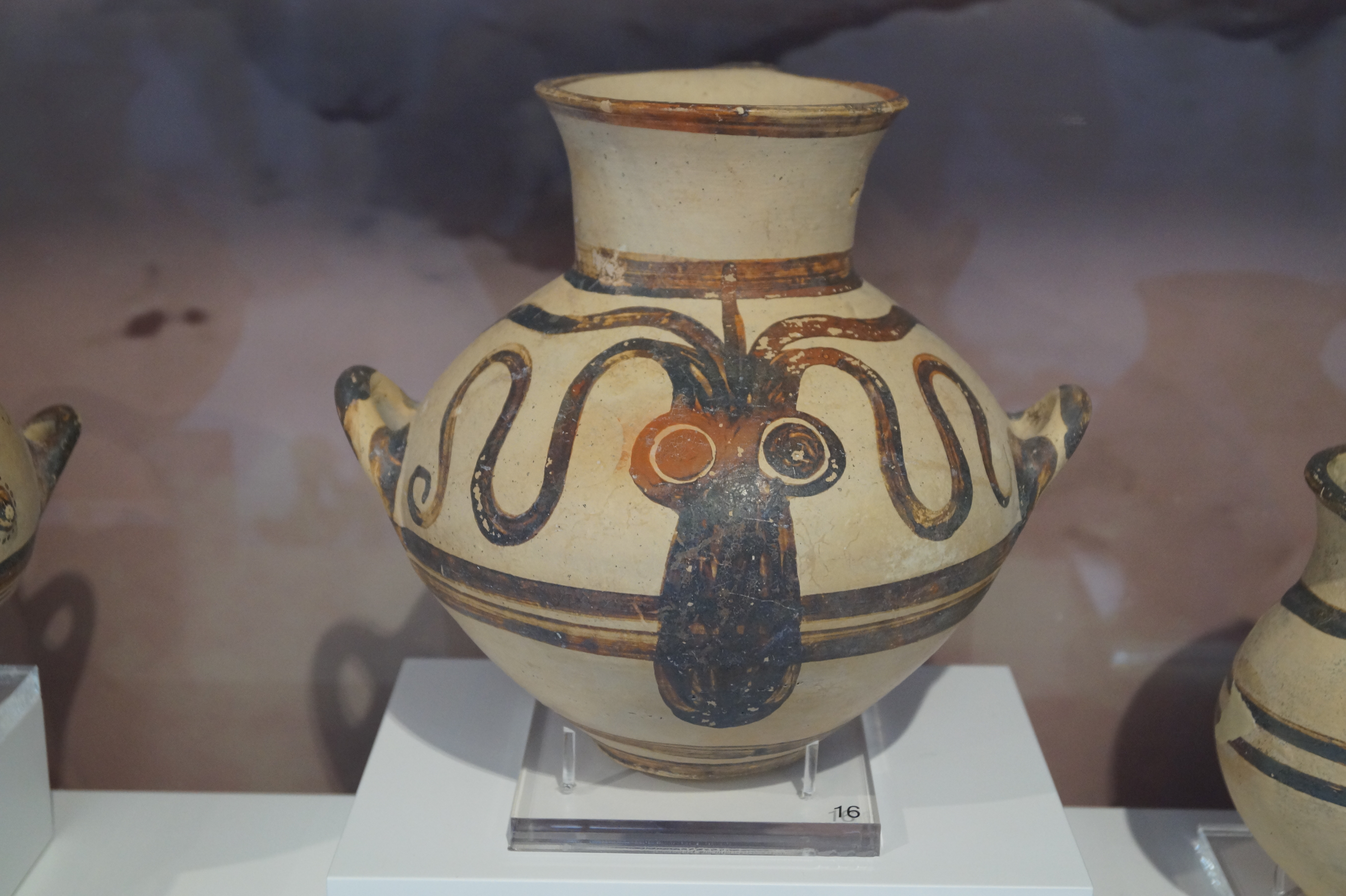 Archaeological Museum of Isthmia: Hydria with octopus from tomb VI of the Mycenaean Cemetery of Kato Almyri (MI175), LH III A2–B1 (1350–1250 BC).